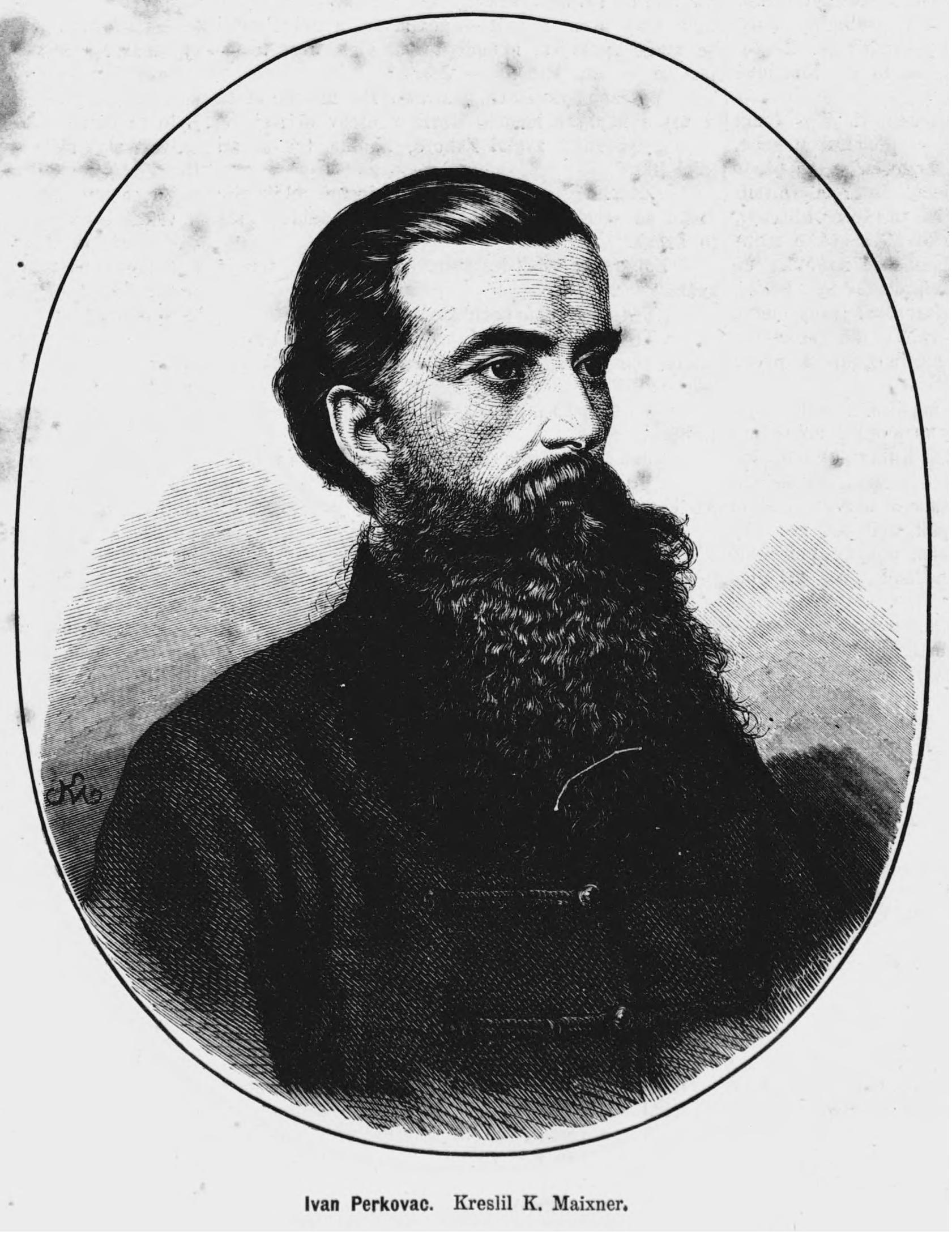 Portrait of Ivan Perkovac (1826 - 1871), Croatian journalist and writer.